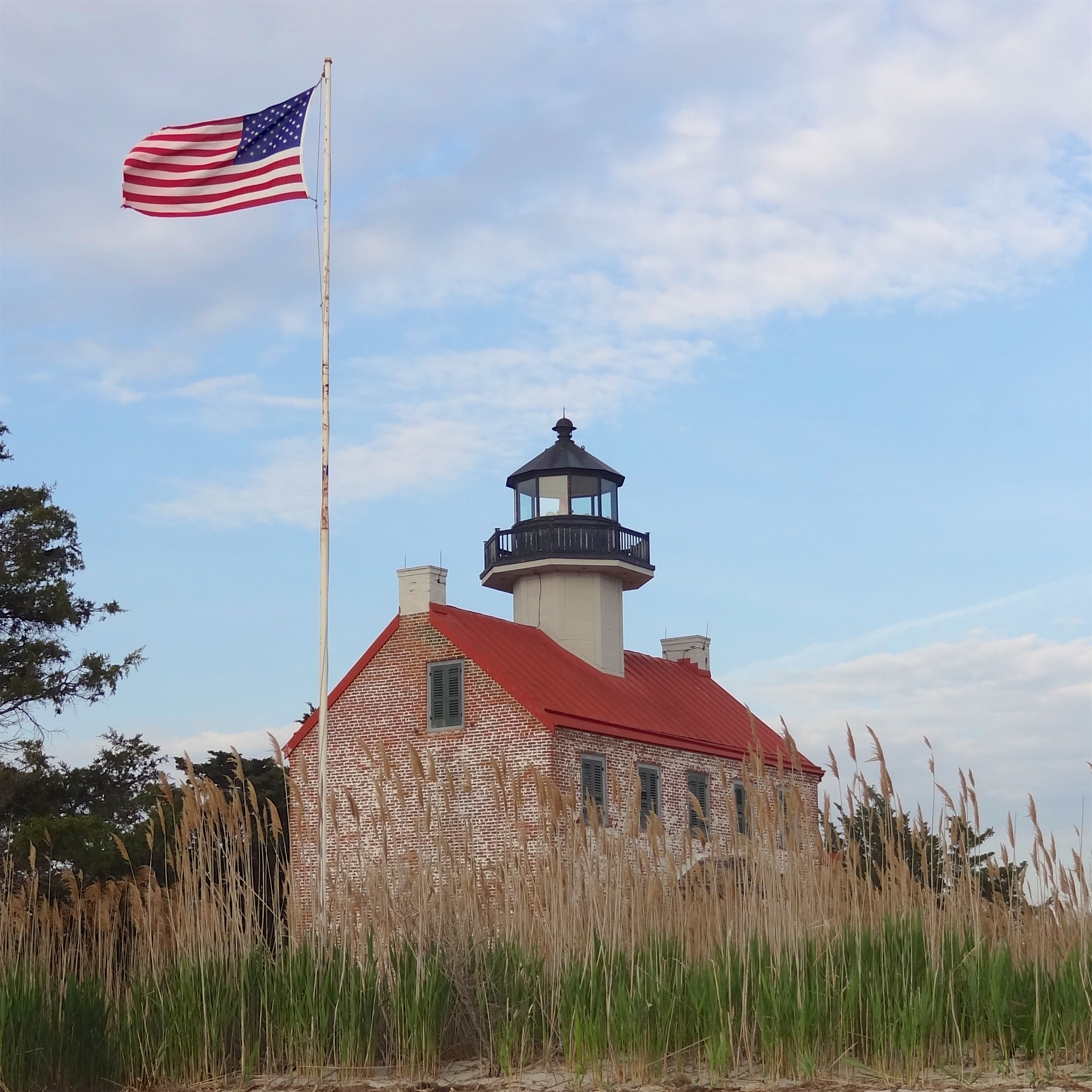 The East Point Light on the Maurice River in Heislerville, New Jersey.